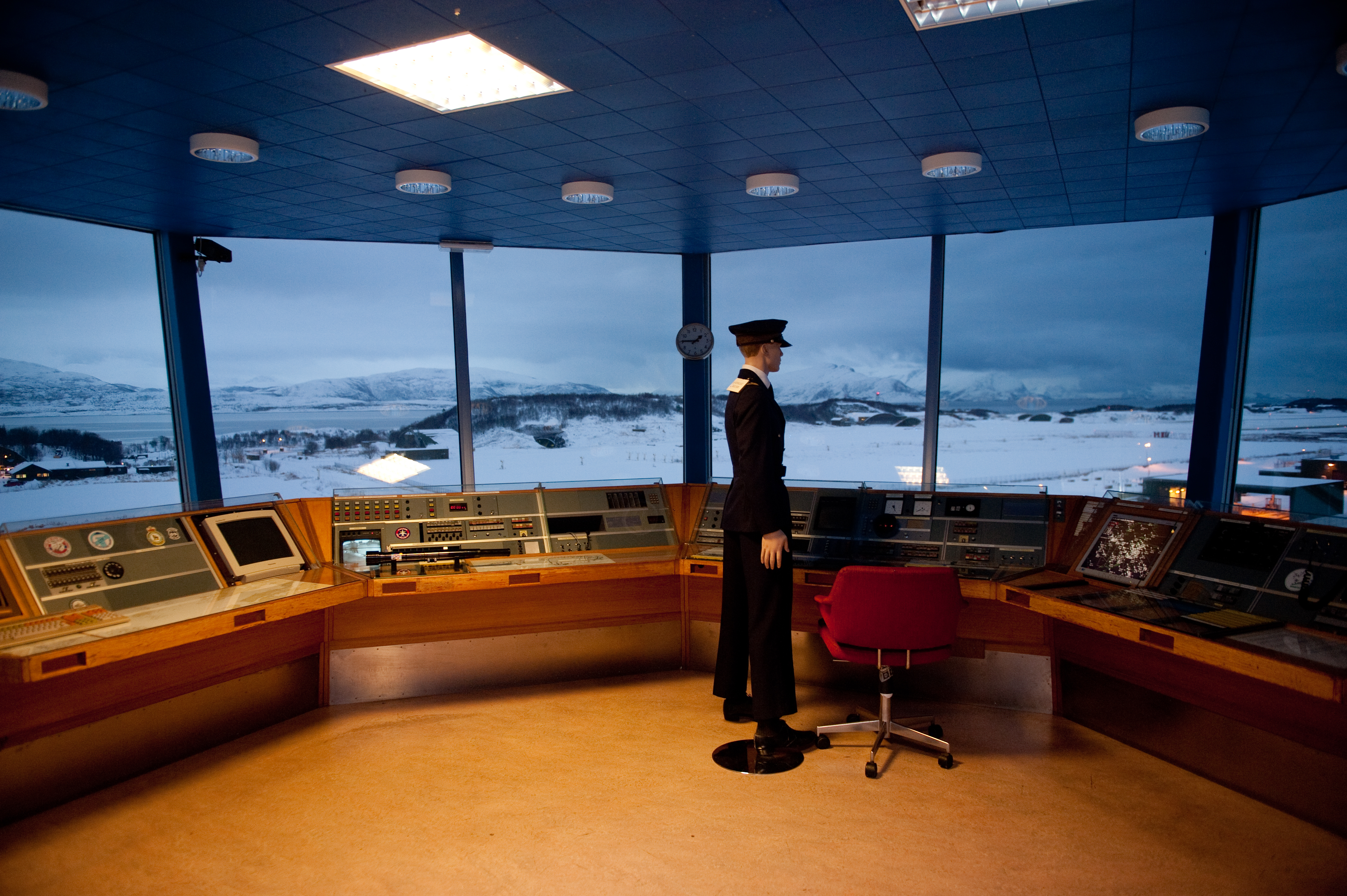 View of the old control tower of Bodø, which has become part of the Norwegian Aviation Museum